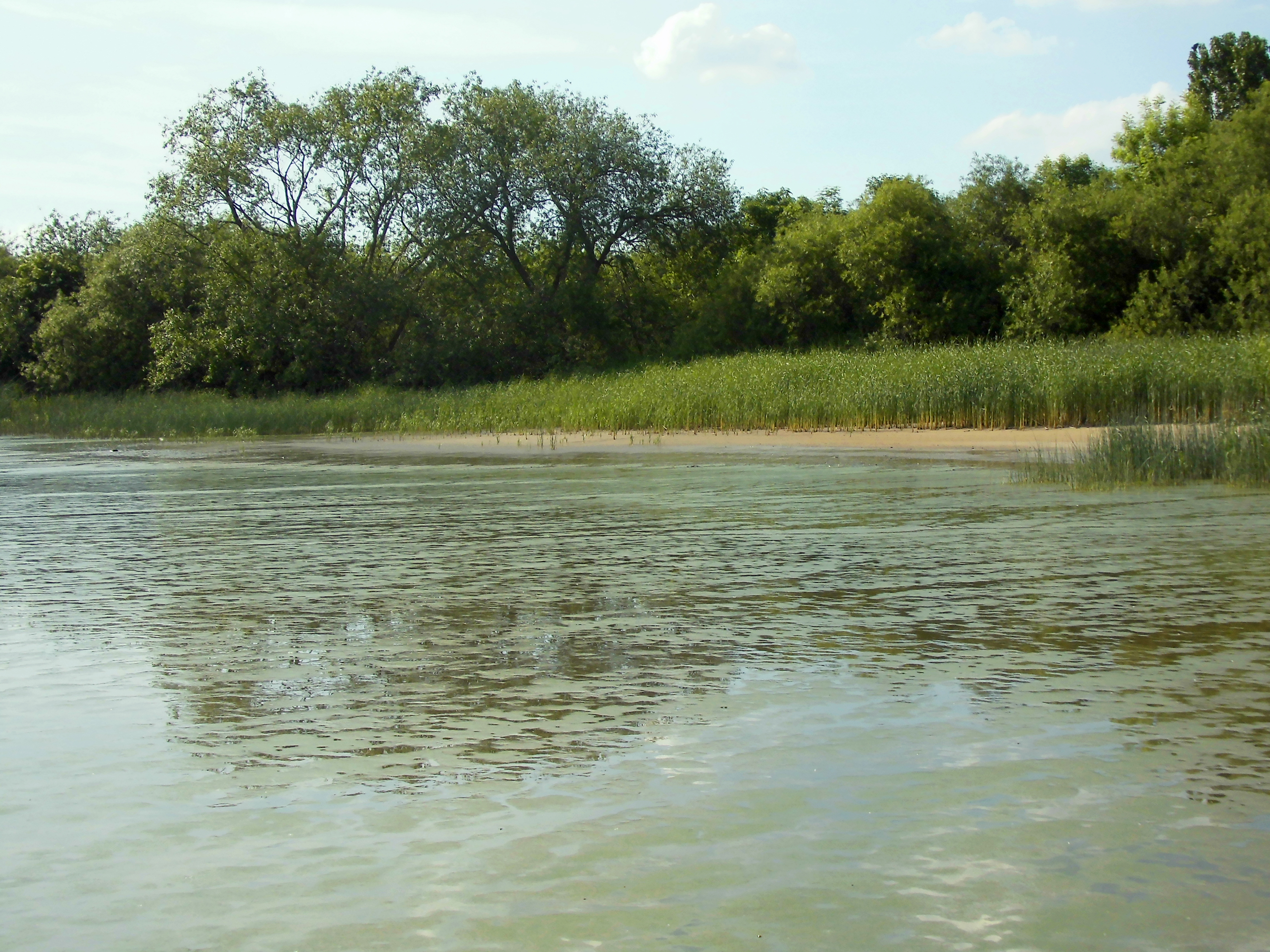 South coast of ‹Schweinesand› island, Mühlenberger Loch, Hamburg, Germany.